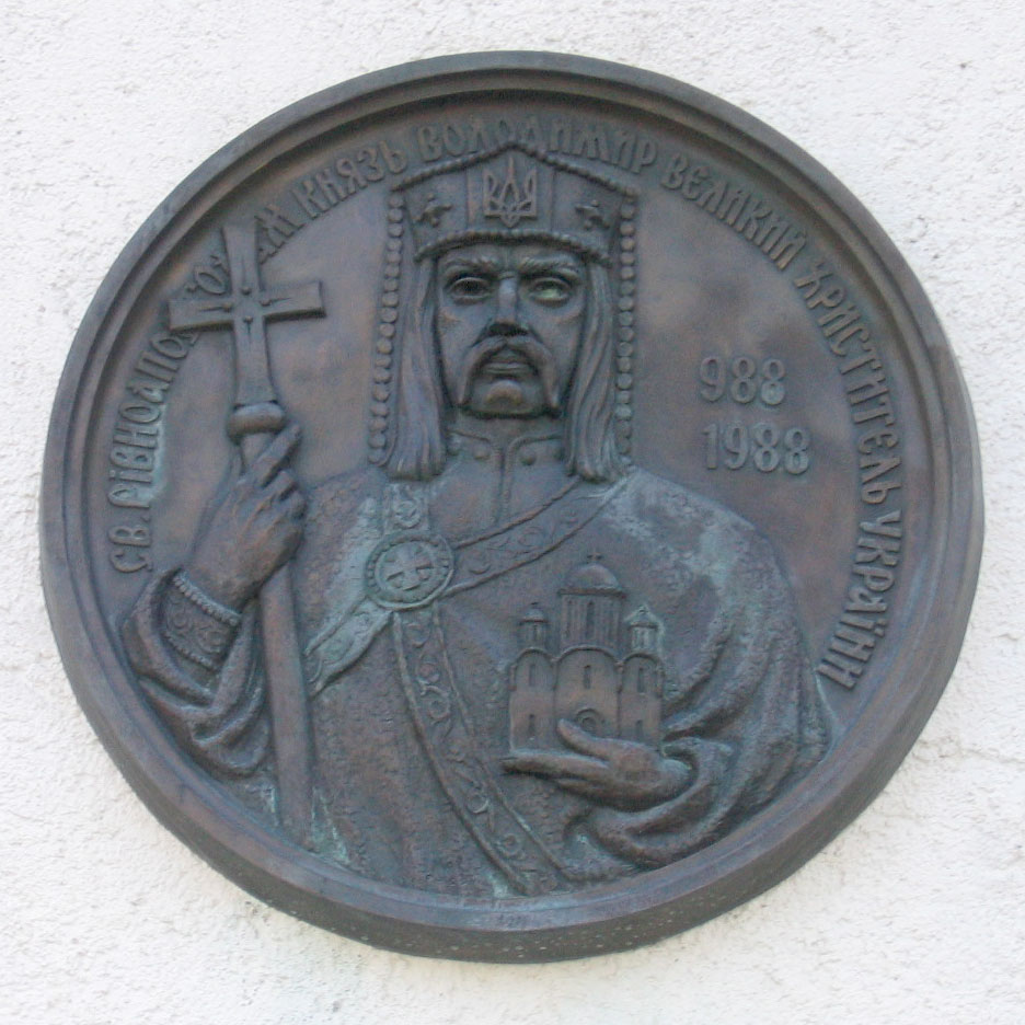 Saint Vladimir, Bronze relief at the facade of Maria Schutz und St. Andreas, Munich, the Cathedral of the Apostolic Exarchate for the catholic Ukrainians.